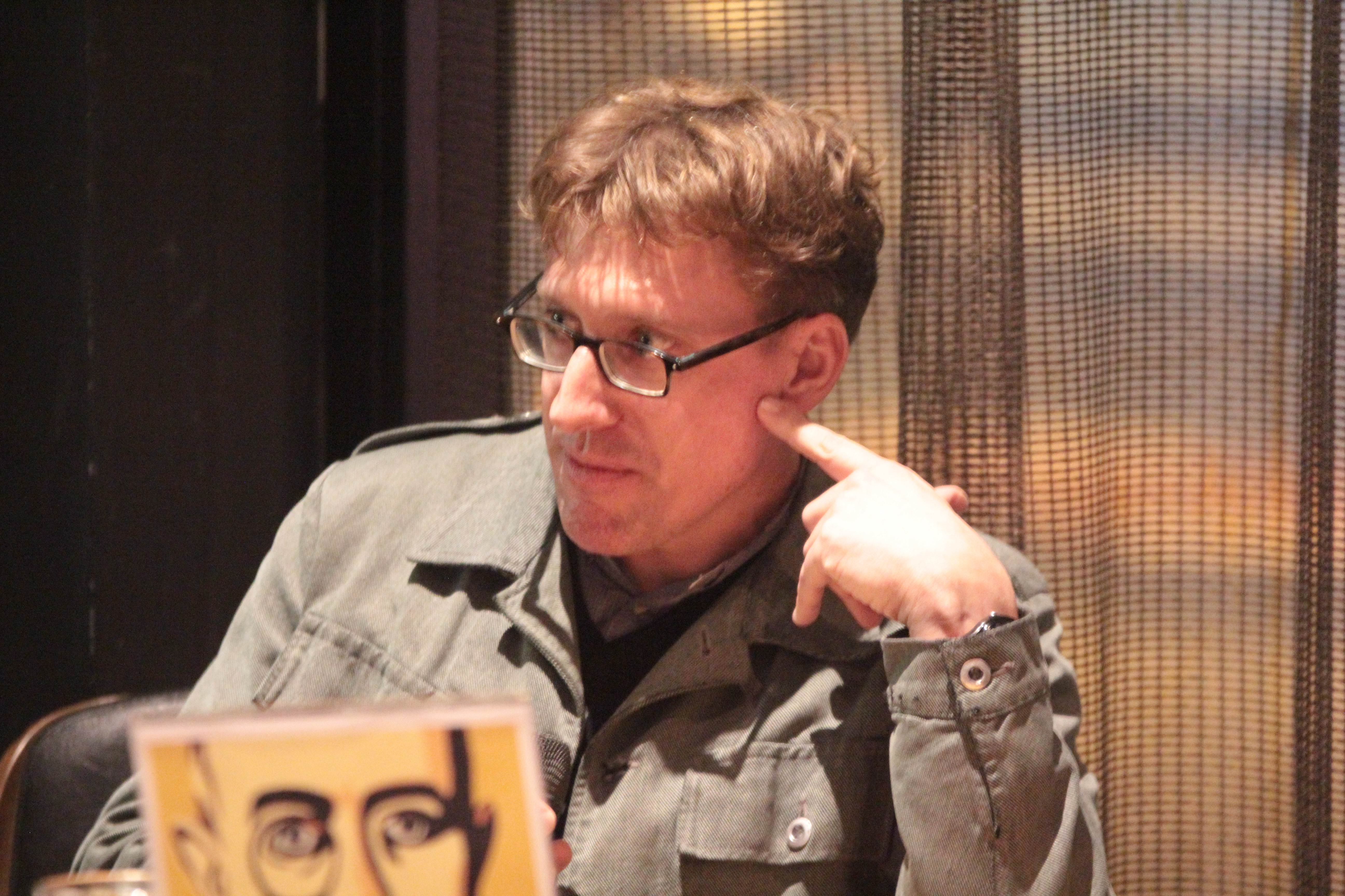 The Germanist and philosopher Eric Jarosinski in Amsterdam. January 15th, 2015